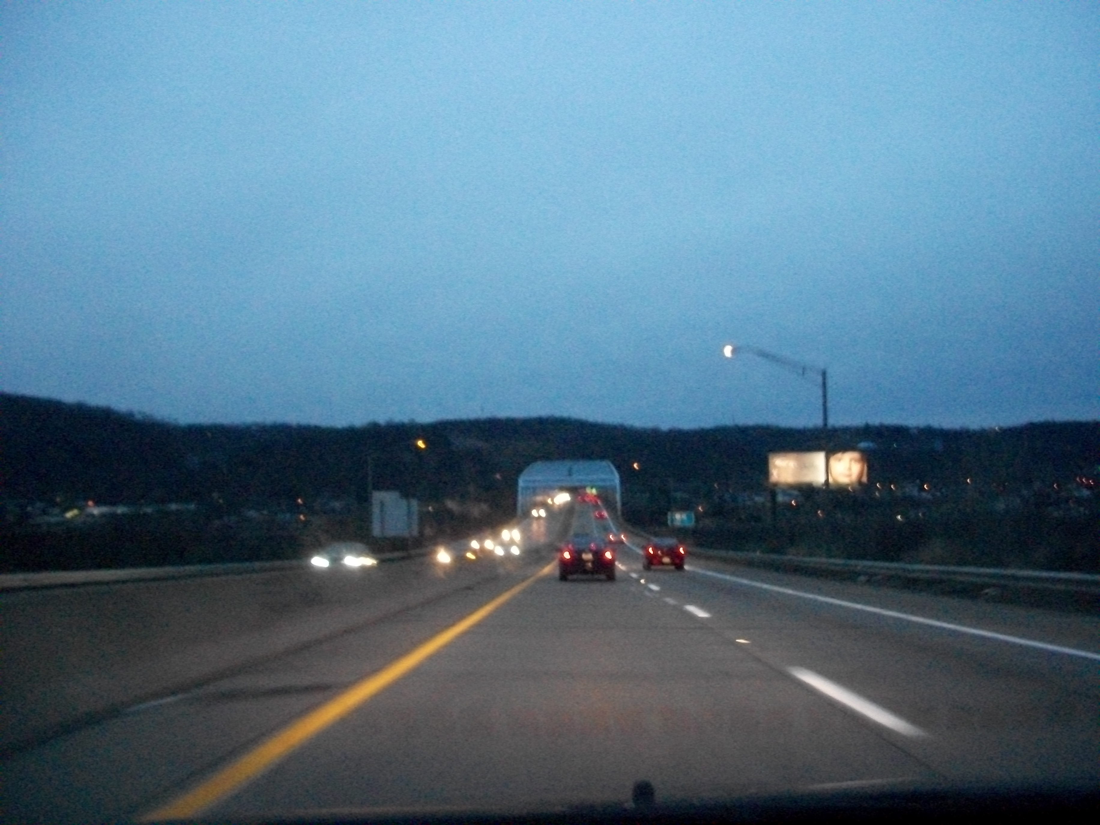 Heading northbound on I-376 across the Vanport Bridge.